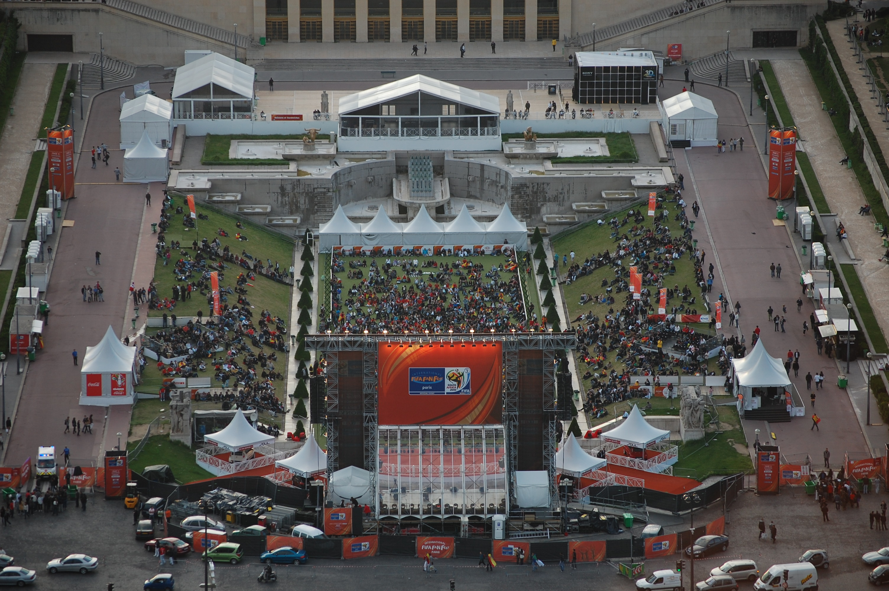 The FIFA Fan Fest in the Trocadéro region of Paris, as seen from the second level of the Eiffel Tower.